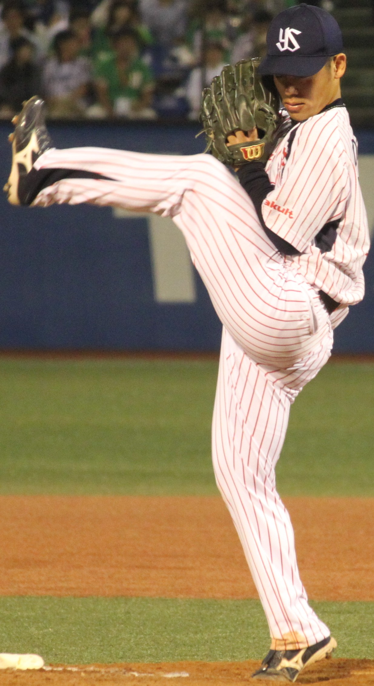 Yasuhiro Ogawa, pitcher of the Tokyo Yakult Swallows, at Meiji Jingu Stadium.